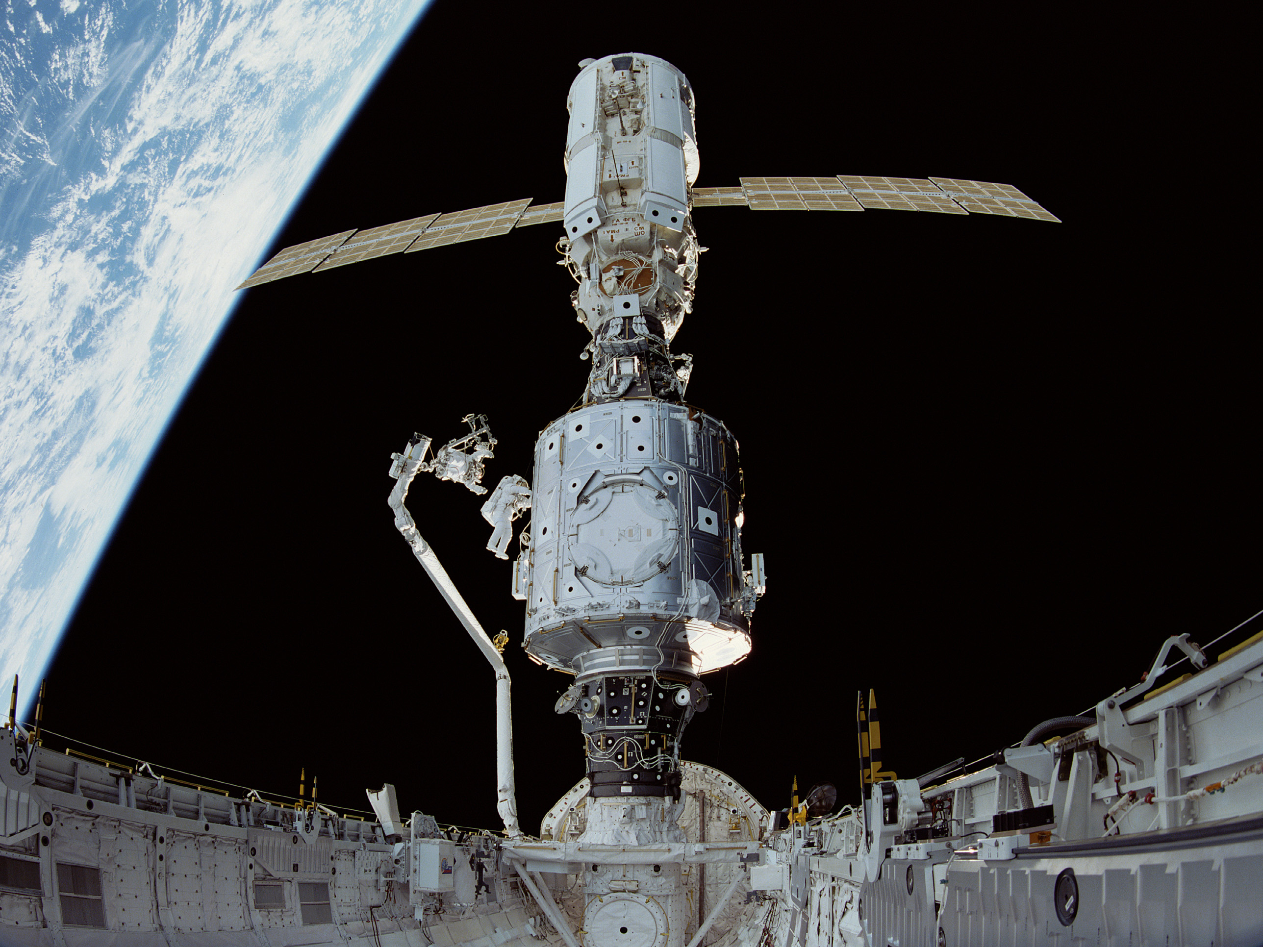 Astronauts from the Space Shuttle mission STS-88 work on the embryonic International Space Station, hours after connecting the first element – the Russian-built Zarya FGB control module with the US-built Node 1 Unity module in December 1998. The crew carried a large-format IMAX camera from which this picture was taken. - Astronaut James Newman working on communication cables on Unity while Astronaut Ross monitors his progress.